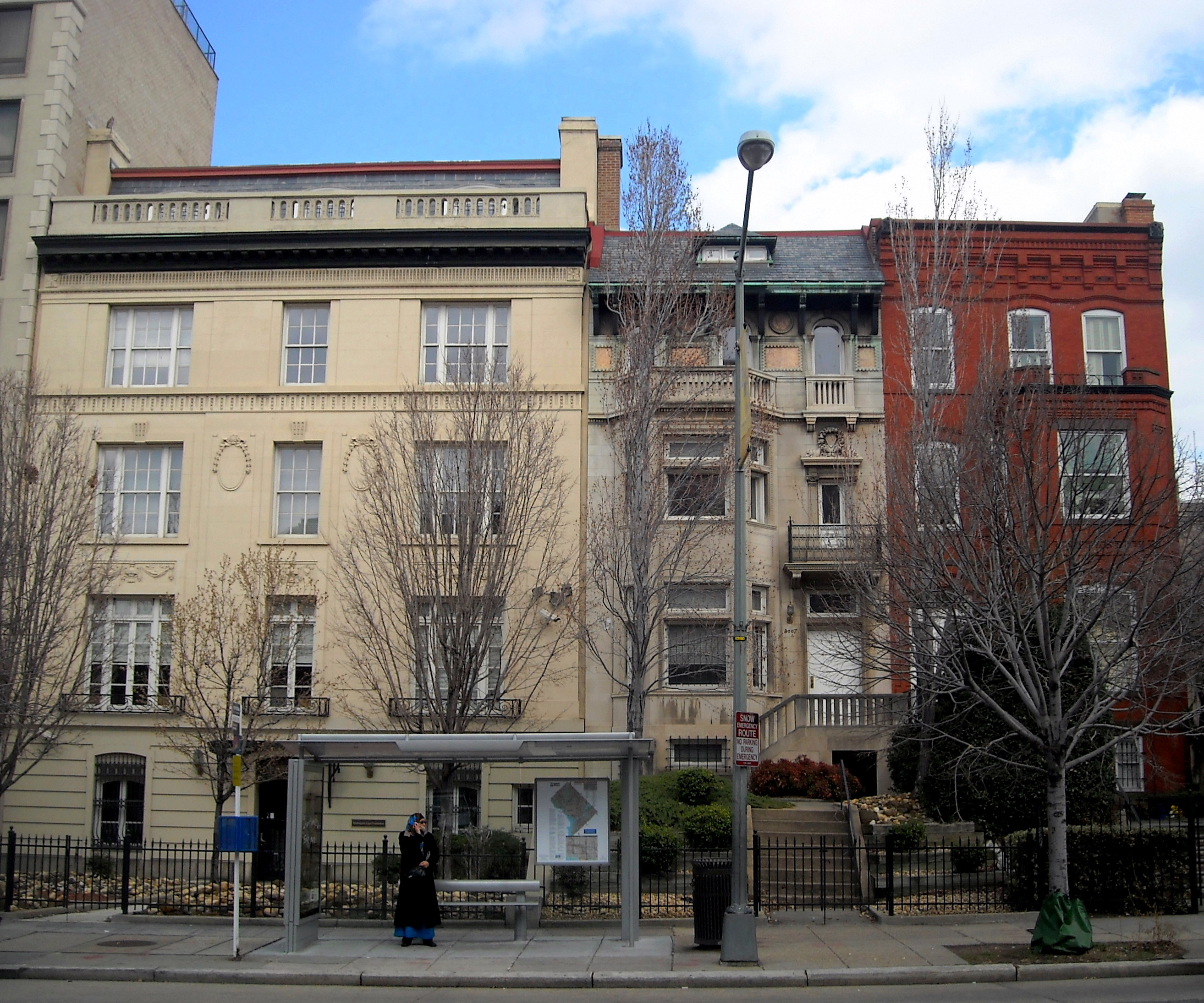 Former private residences located at 2005–2009 Massachusetts Avenue, NW in the Dupont Circle neighborhood of Washington, D.C. The buildings now serve as headquarters of the Washington Legal Foundation (left; center) and the Washington, D.C. office of the Konrad Adenauer Foundation (right). The three buildings are contributing properties to the Dupont Circle Historic District and the Massachusetts Avenue Historic District. The 2009 property value of 2009 Massachusetts Avenue (includes the center building, 2007 Mass Ave, which is owned by the Washington Legal Foundation) is $6,748,950. The 2009 property value of 2005 Massachusetts Avenue is $1,922,960. Previous owners of 2009 Massachusetts Avenue (built in 1885) include Nicholas Longworth and Alice Roosevelt Longworth. Previous owners of 2007 Massachusetts Avenue (designed by Jules Henri de Sibour in 1901) include Robert Roosevelt's youngest son, Robert Barnwell Roosevelt, Jr., Assistant Secretary of Treasury Horace A. Taylor, and artist John Taylor Arms. Previous owners of 2005 Massachusetts Avenue (designed by John Brady, built in 1882 by Charles S. Denham) include George Miller Sternberg.